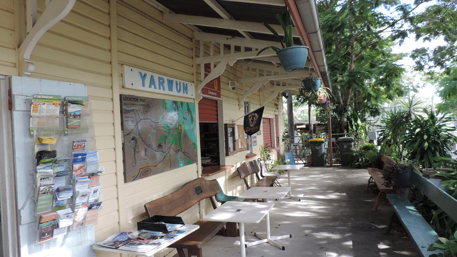 Village Kiosk (formerly Yarwun Railway Station), relocated in 2003 to Calliope River Historical Village (closeup), 2014